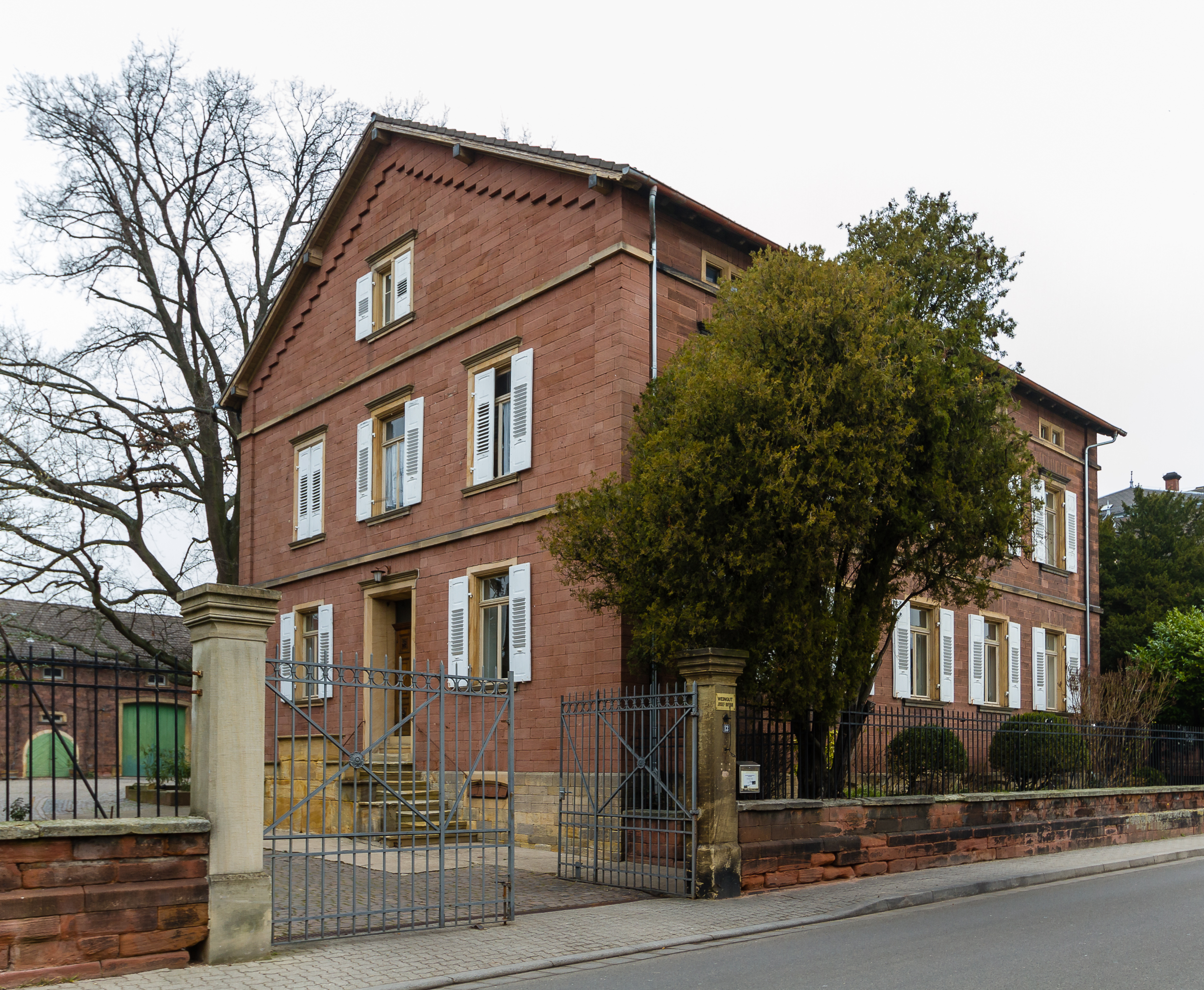 Designation: Winery Location: Niederkircher Straße House number: 13 Place: Deidesheim, District Bad Dürkheim, Rhineland-Palatinate Construction time: second half of the 19th century Description: Late-classicistic red sandstone building, cellar referred to as 1879.